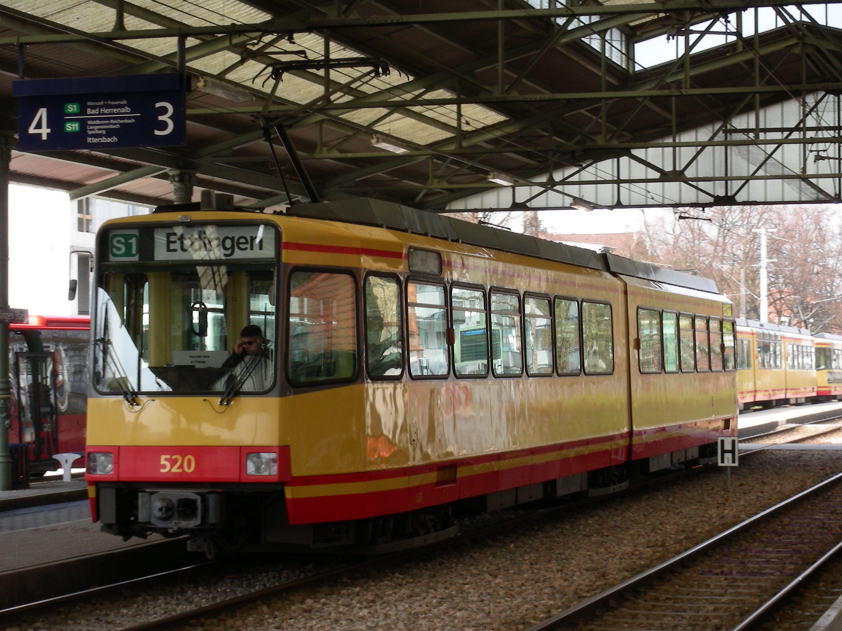 Electric multiple unit 520 of the AVG at Ettlingen-Stadt station